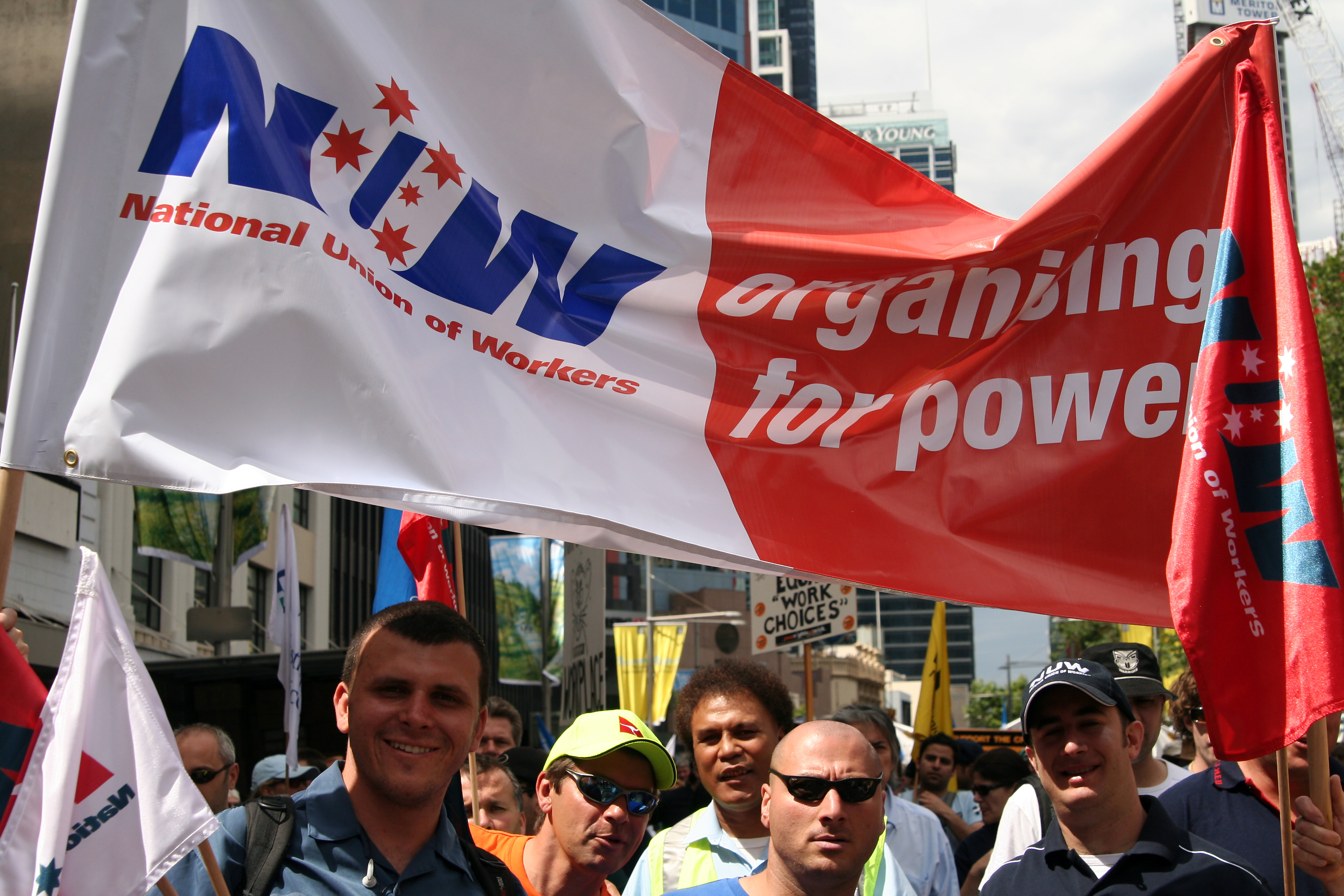 This photo is relevant to the Australia NSW Sydney IRProtest.